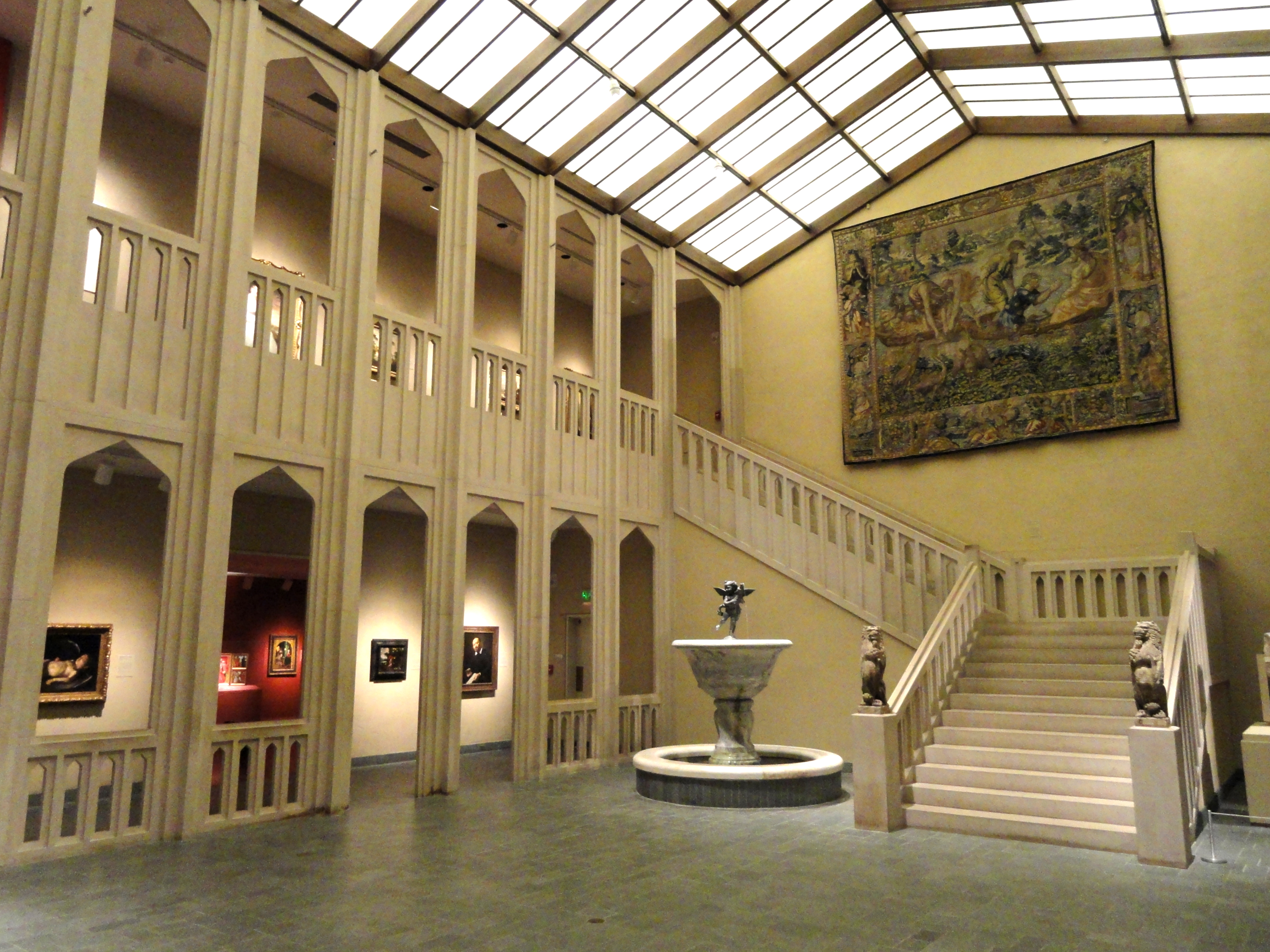 Interior view - Indianapolis Museum of Art, Indianapolis, Indiana, USA.